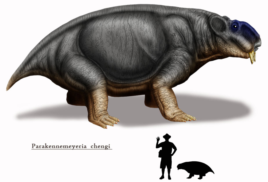 Parakannemeyeriachengi